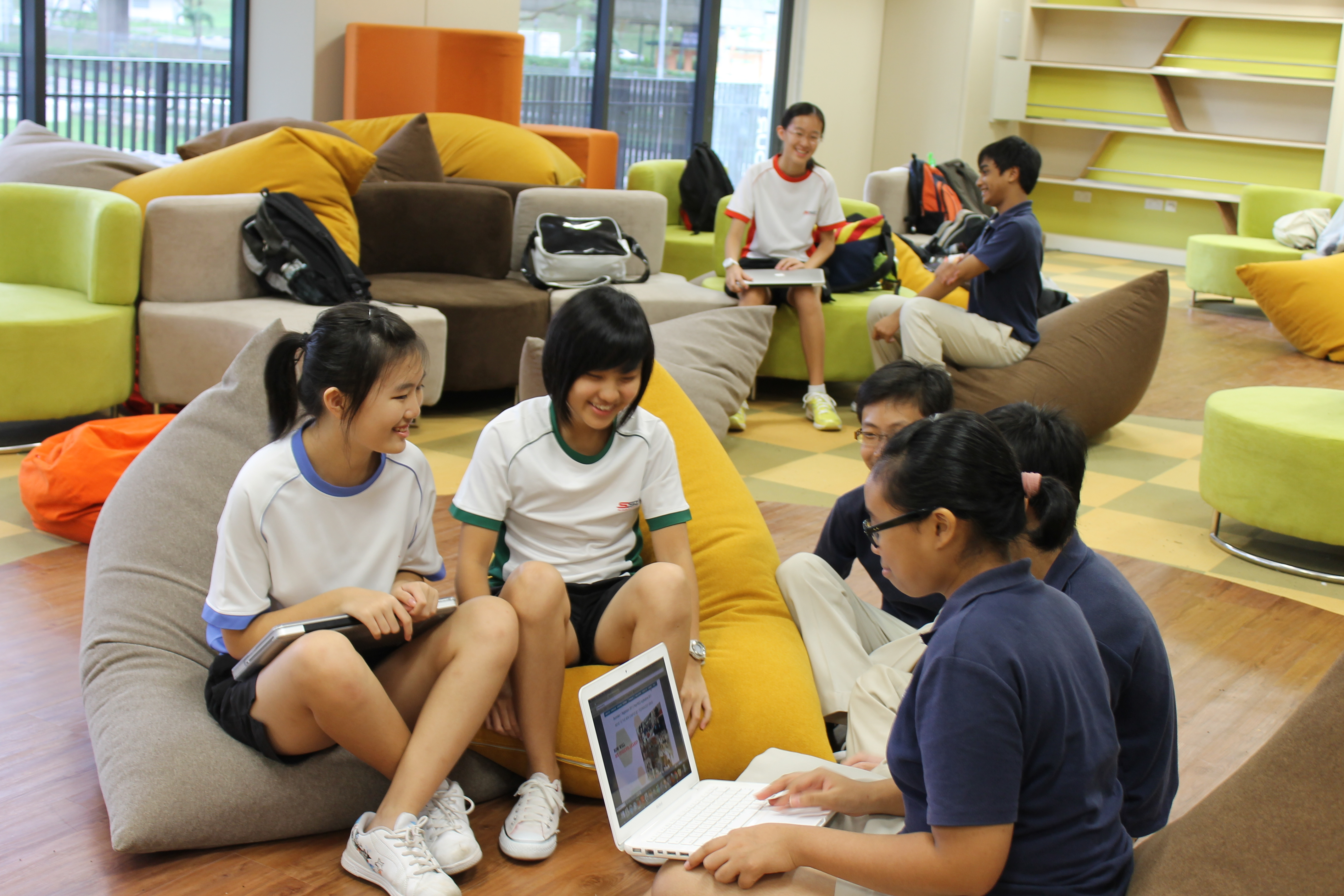 Student discussion at Ourspace